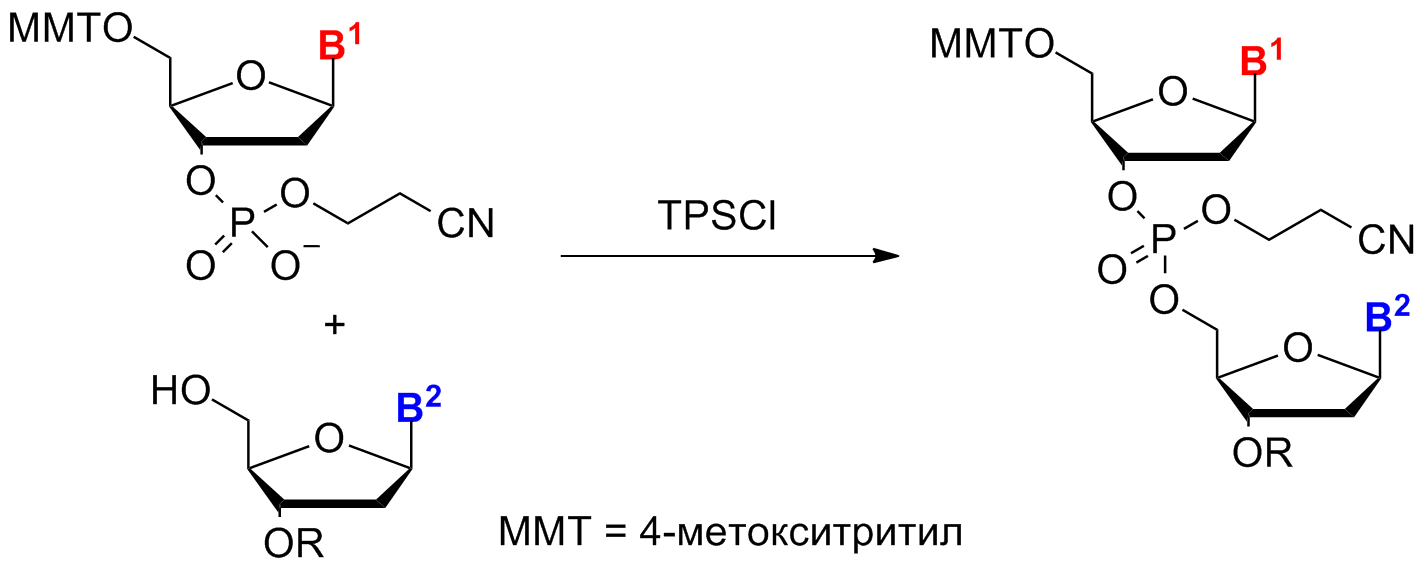 Phosphotriester oligonucleotide synthesis